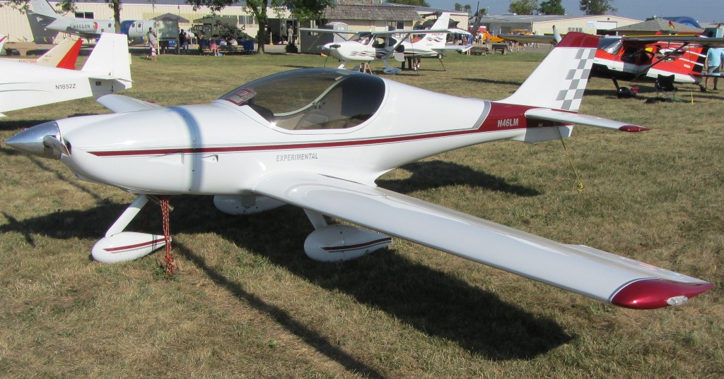 Esqual VM-1